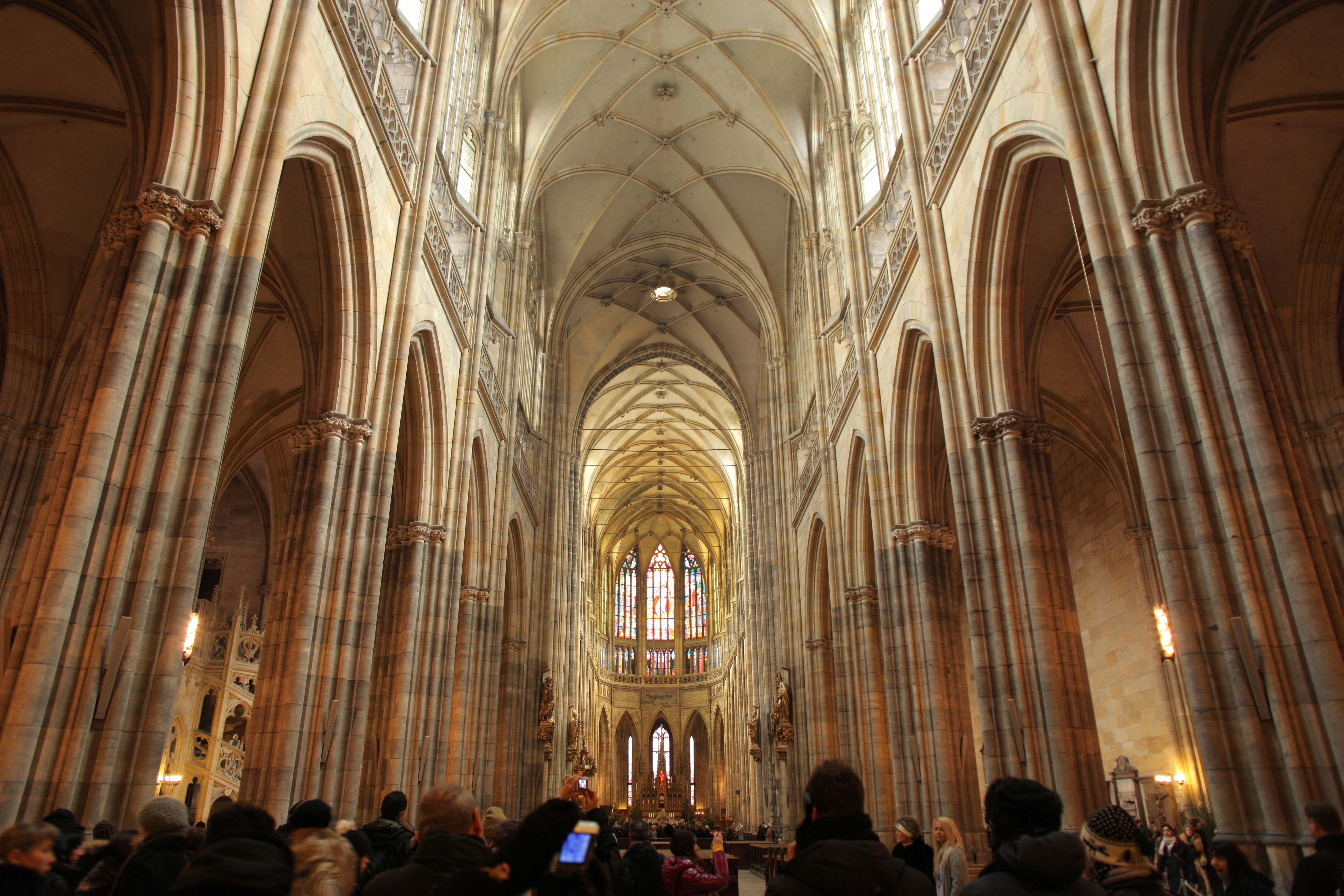 Inside view of the St. Vitus Cathedral in Prague.